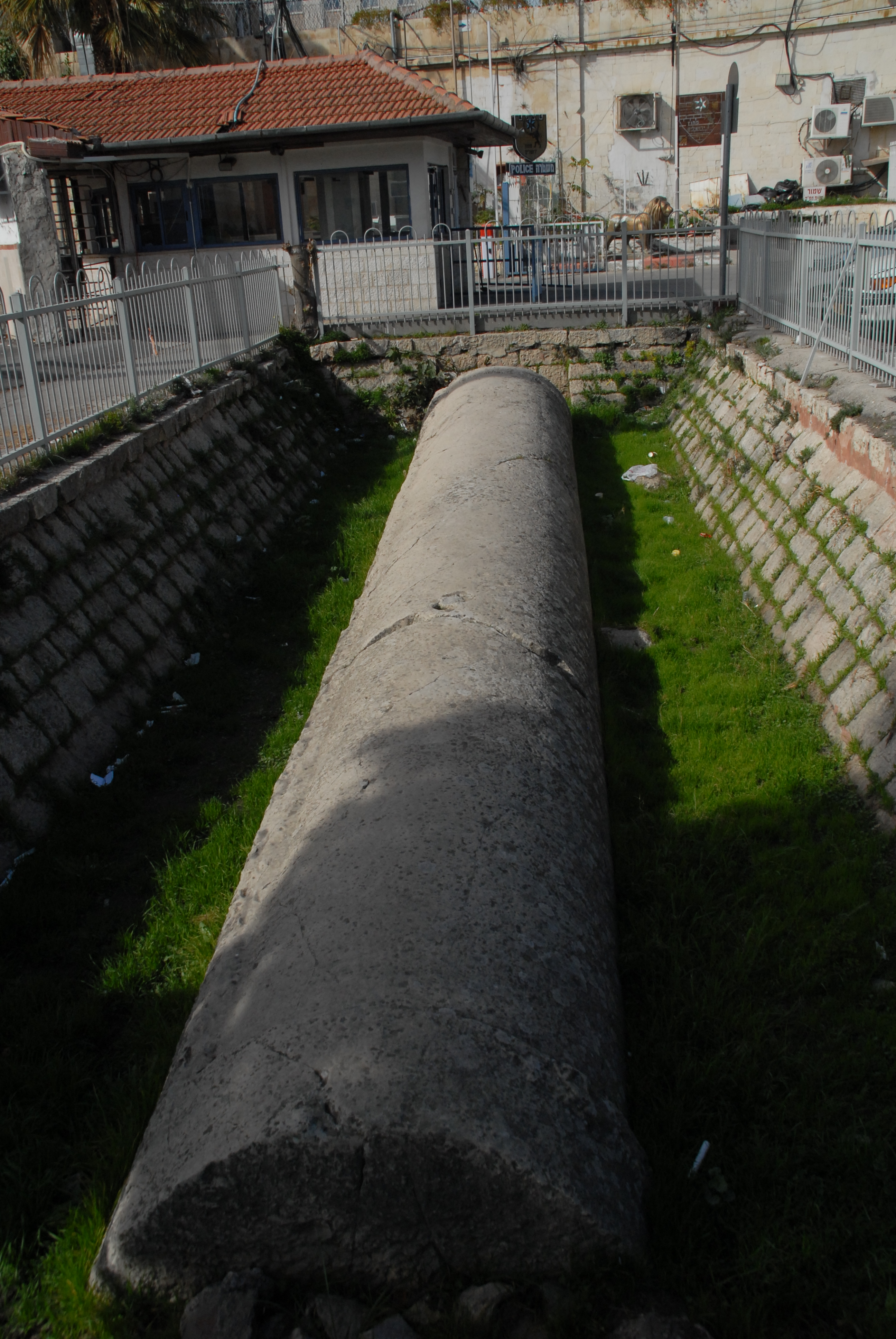 Religion in Israel